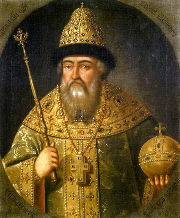 Vasili IV of Russia, 18-й век, ГИМ